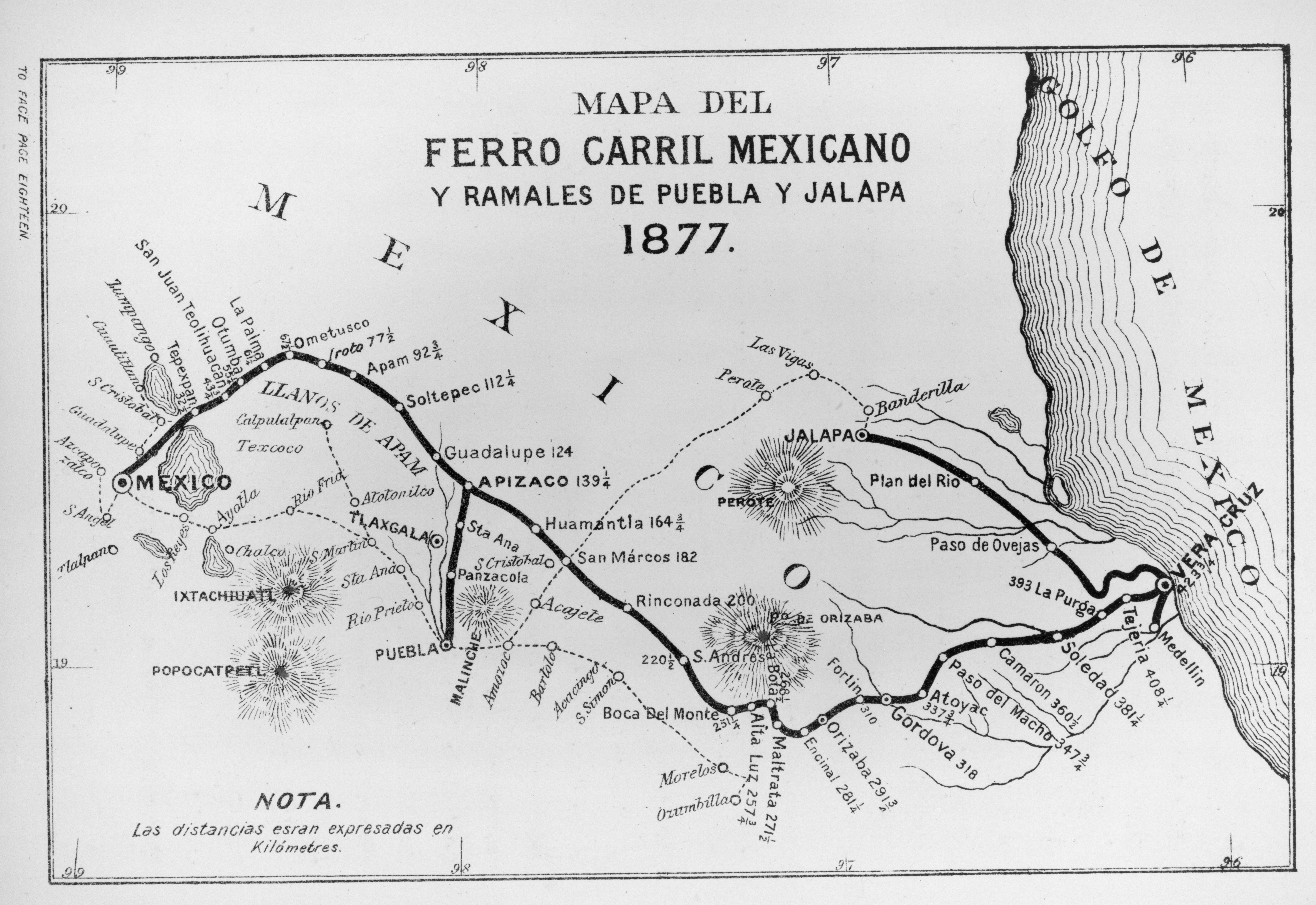 Print shows map of a railway line from Mexico City to Veracruz, Mexico, with additional lines between Apizaco and Puebla and between Jalapa and Veracruz; also includes locations of volcanoes.